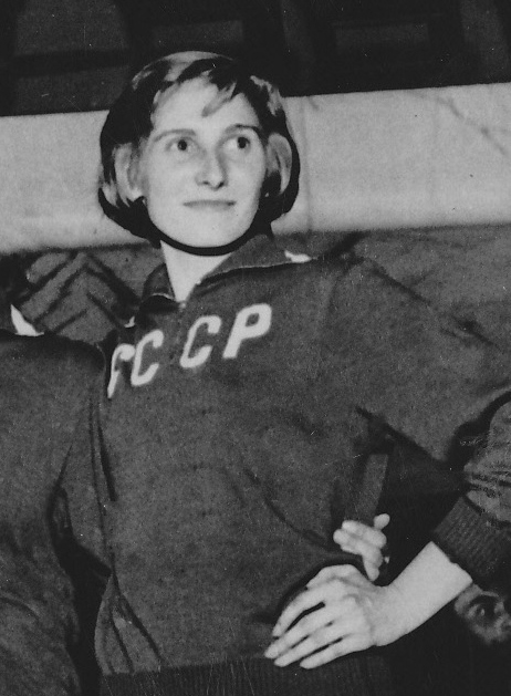 Soviet women's foil team at the 1960 Olympics. Valentina Prudskova